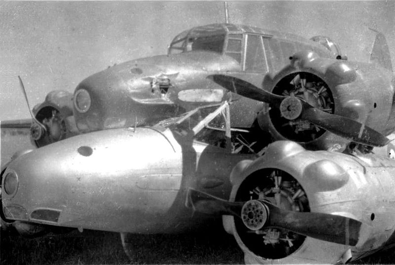 Two Avro Ansons of No. 2 Service Flying Training School that collided in mid-air, locked together, and then landed safely near Brocklesby, New South Wales, on 29 September 1940.